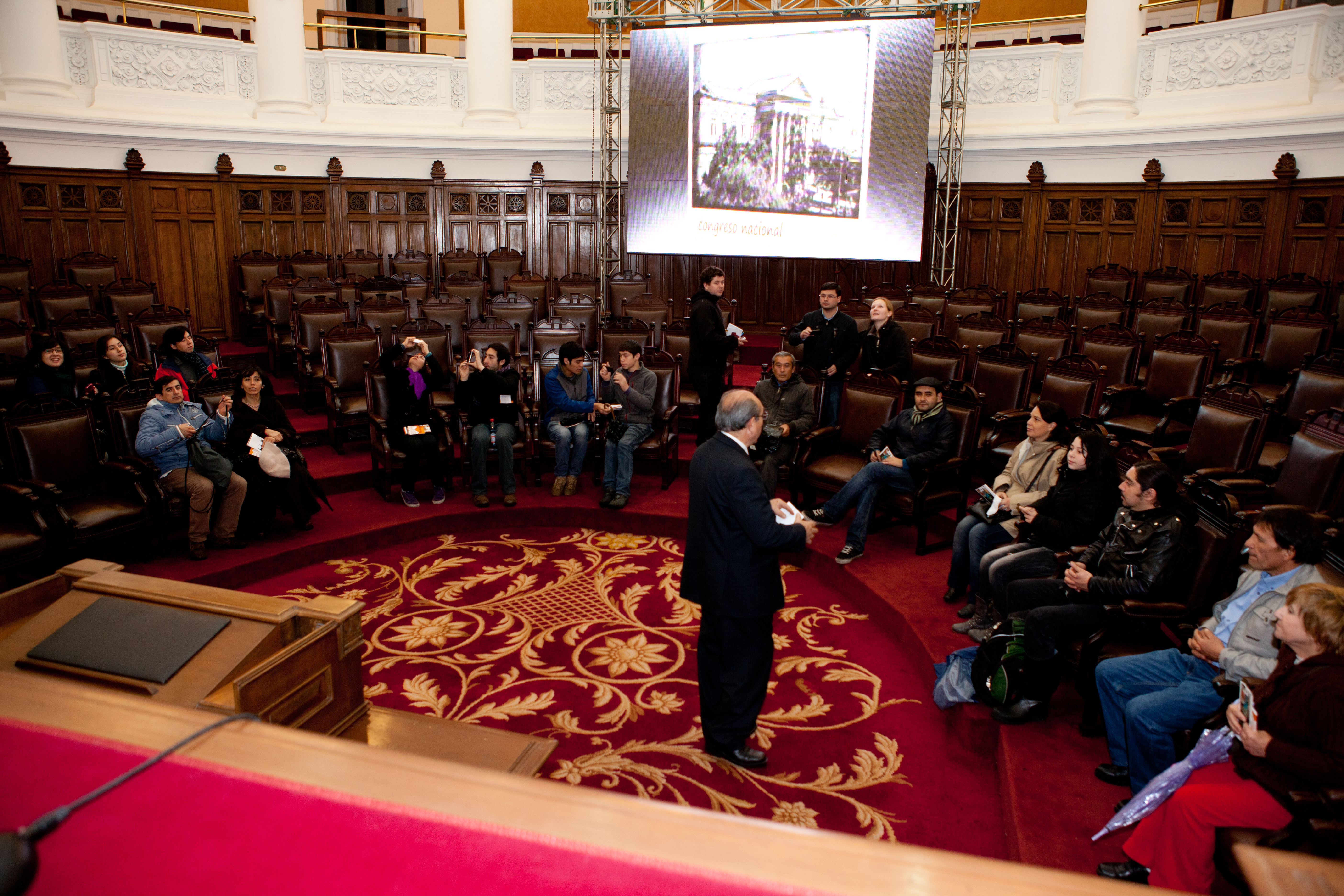 Photographic collection of the Library of the National Congress of Chile.